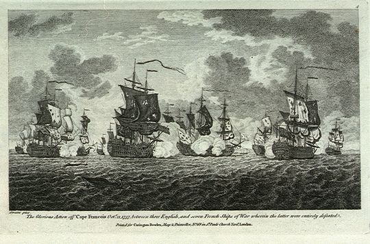 Twelve Prints of Sea Engagements. The Glorious Action off Cape Francois Octr 21 1757, between three English, and seven French Ships of War wherin the latter were entirely defeated